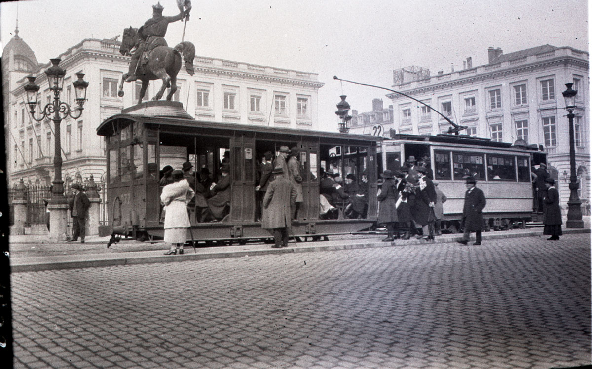 Tram stop in Brussels ,october 1922. Photo Nr: 2157-28.